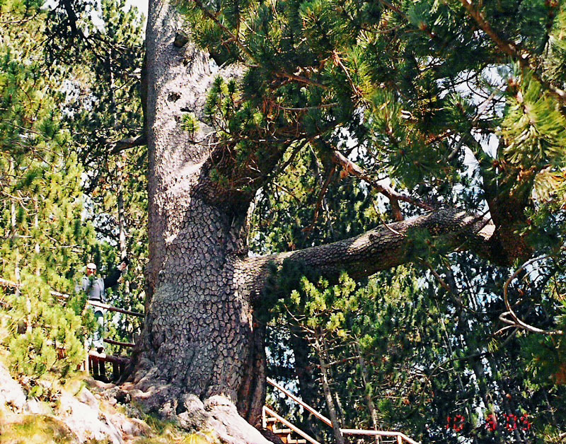 Nature landmark Baykusheva mura (Pinus heldreichii) aged 1300+, located in Pirin mountain, Bulgaria.